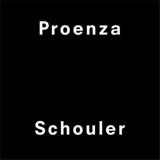 proenza schouler company logo